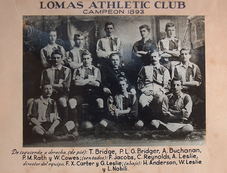 The Lomas Athletic Club's association football team that won the Argentine Primera División title in 1893.